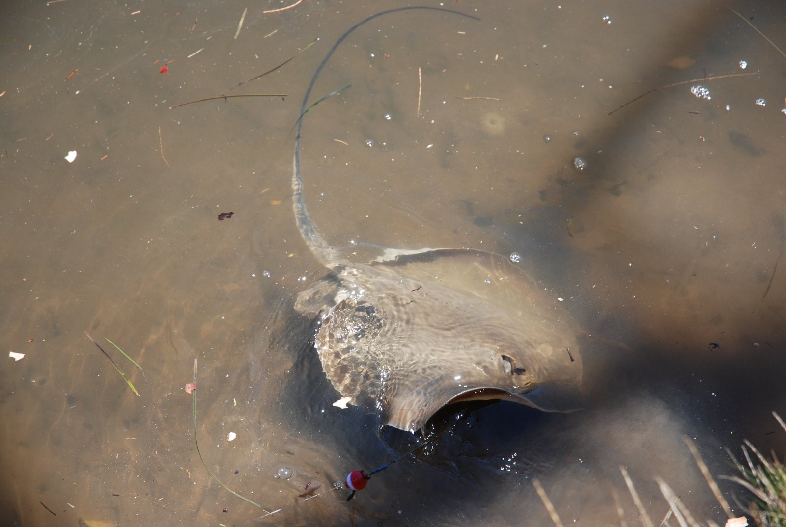 Estuary stingray (Dasyatis fluviorum)